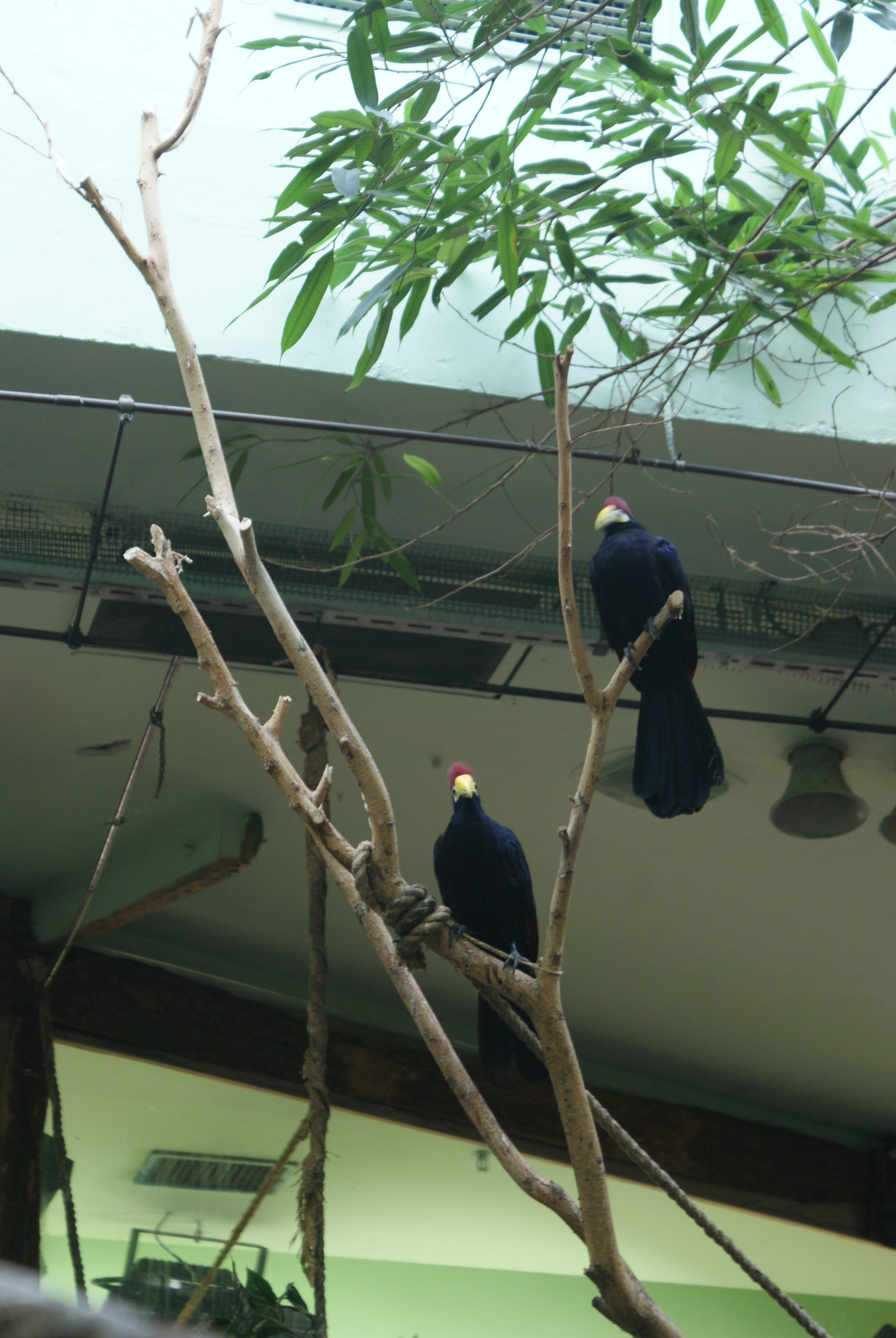 Musophaga rossae in Tropicarium-Oceanarium Budapest